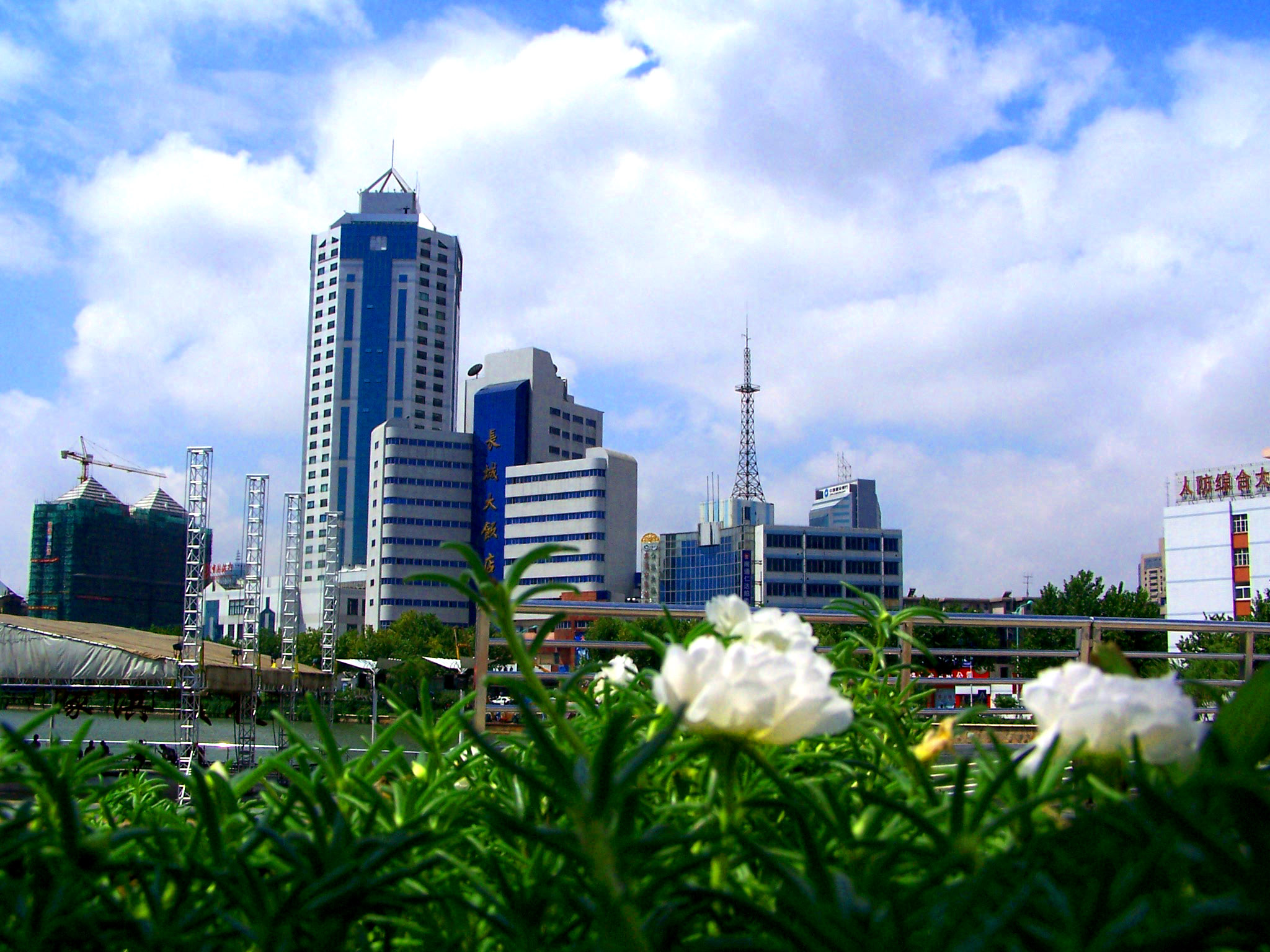 City of Nantong